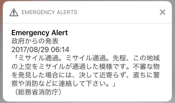 Alert message sent at 08/29/2017 - North Korea Missile launch